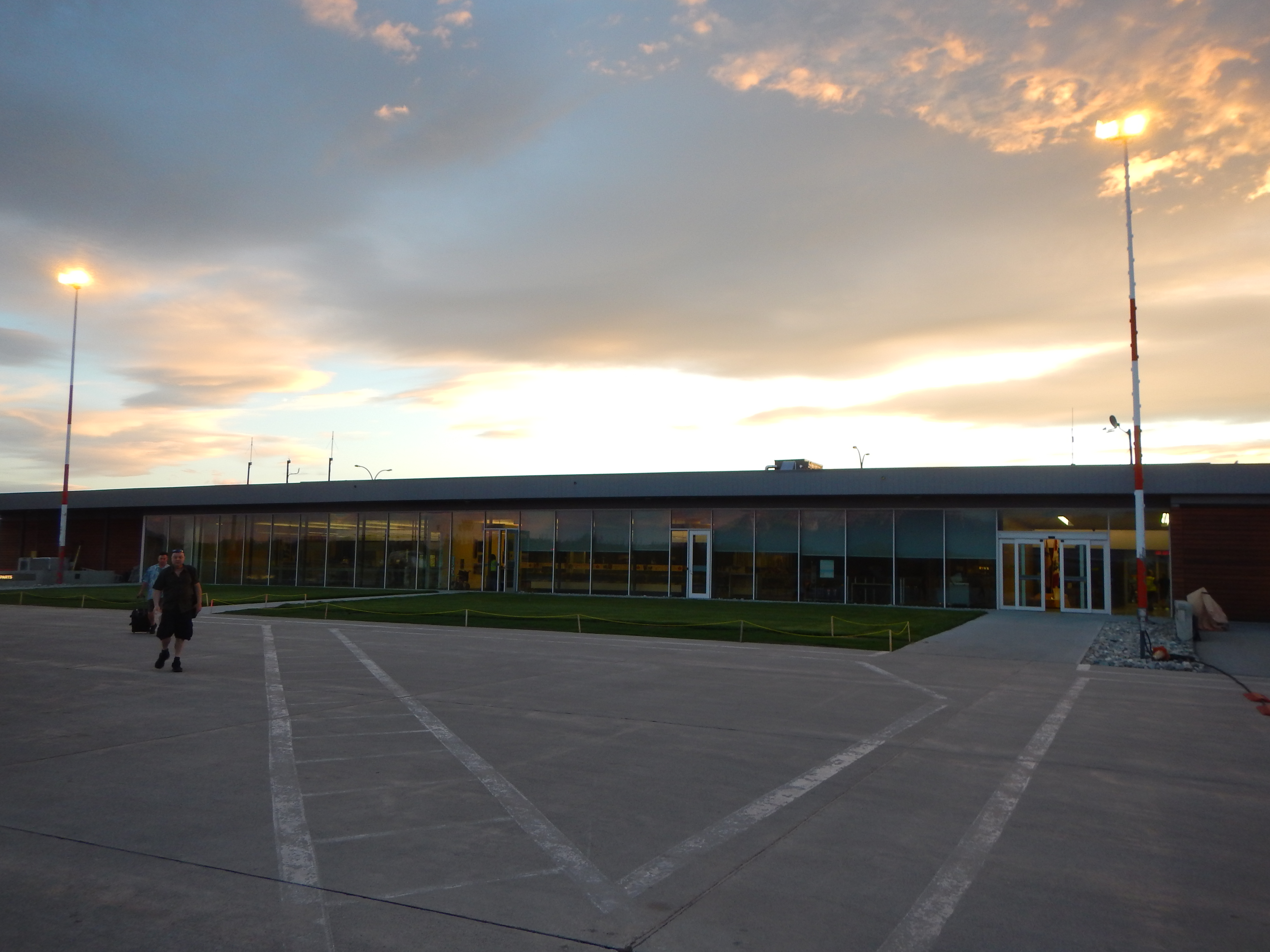 Terminal at YXC